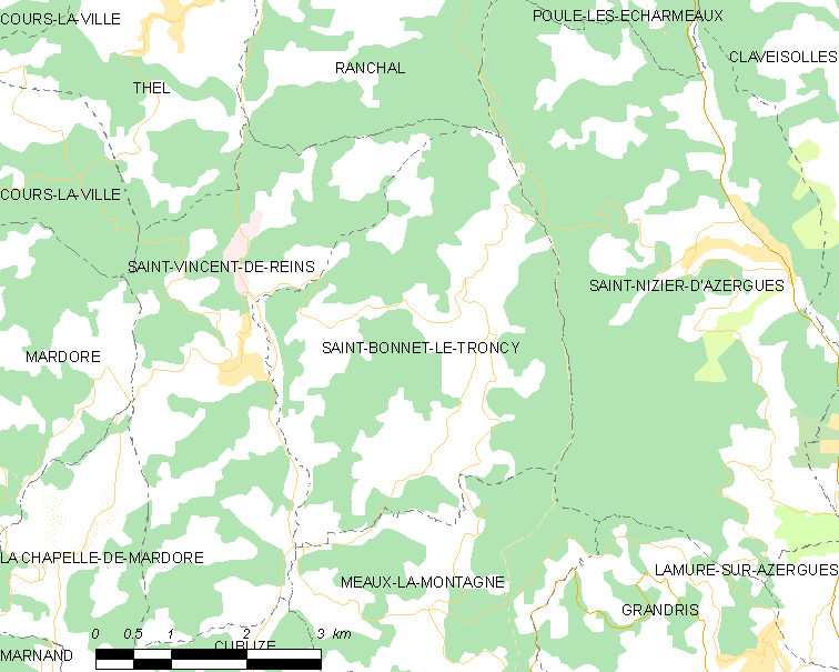 Map of French municipality